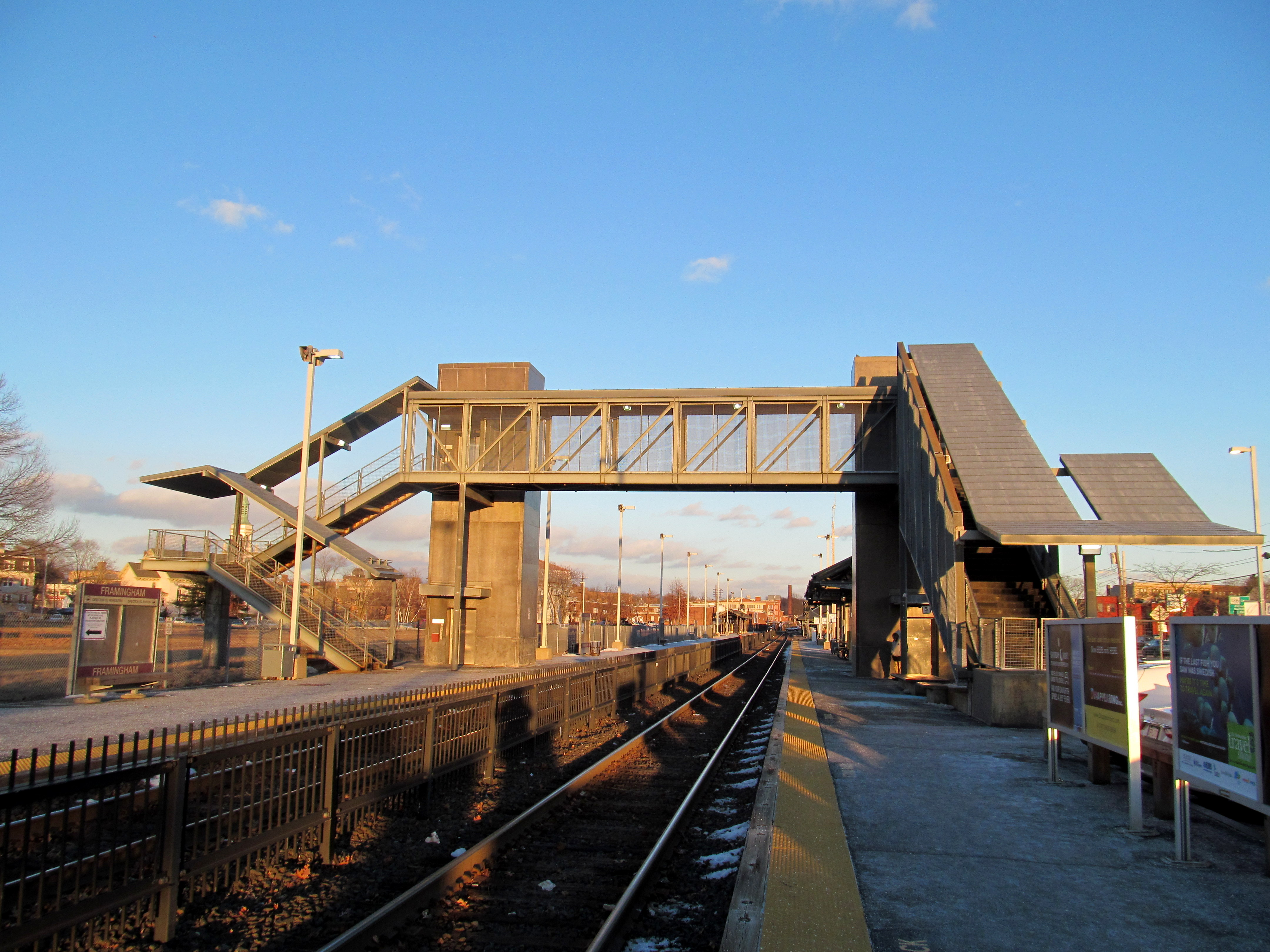 Framingham station looking east at the 2001-built pedestrian bridge in January 2015.